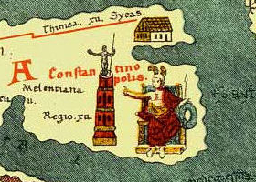 Part of Constantinopolis from Tabula Peutingeriana, 1-4th century CE. Facsimile edition by Conradi Millieri, 1887/1888.